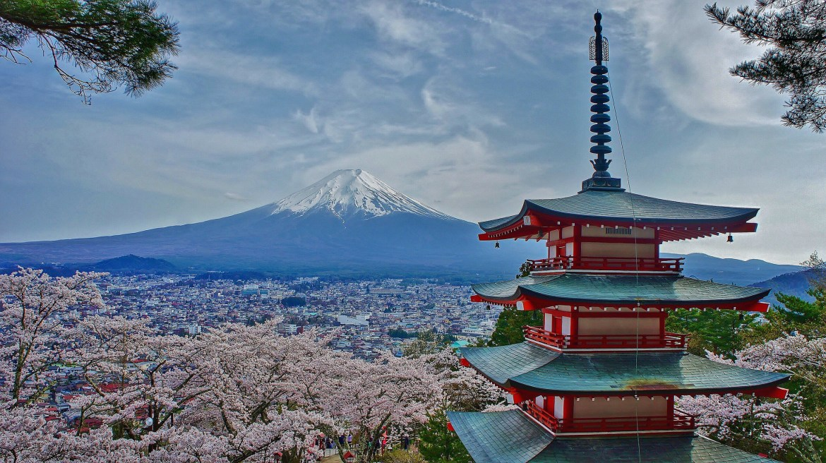 Chūrei-tō pagoda and Mount Fuji with cherry blossoms in the Arakurayama Sengen Park, Fujiyoshida, Yamanashi, central Japan.